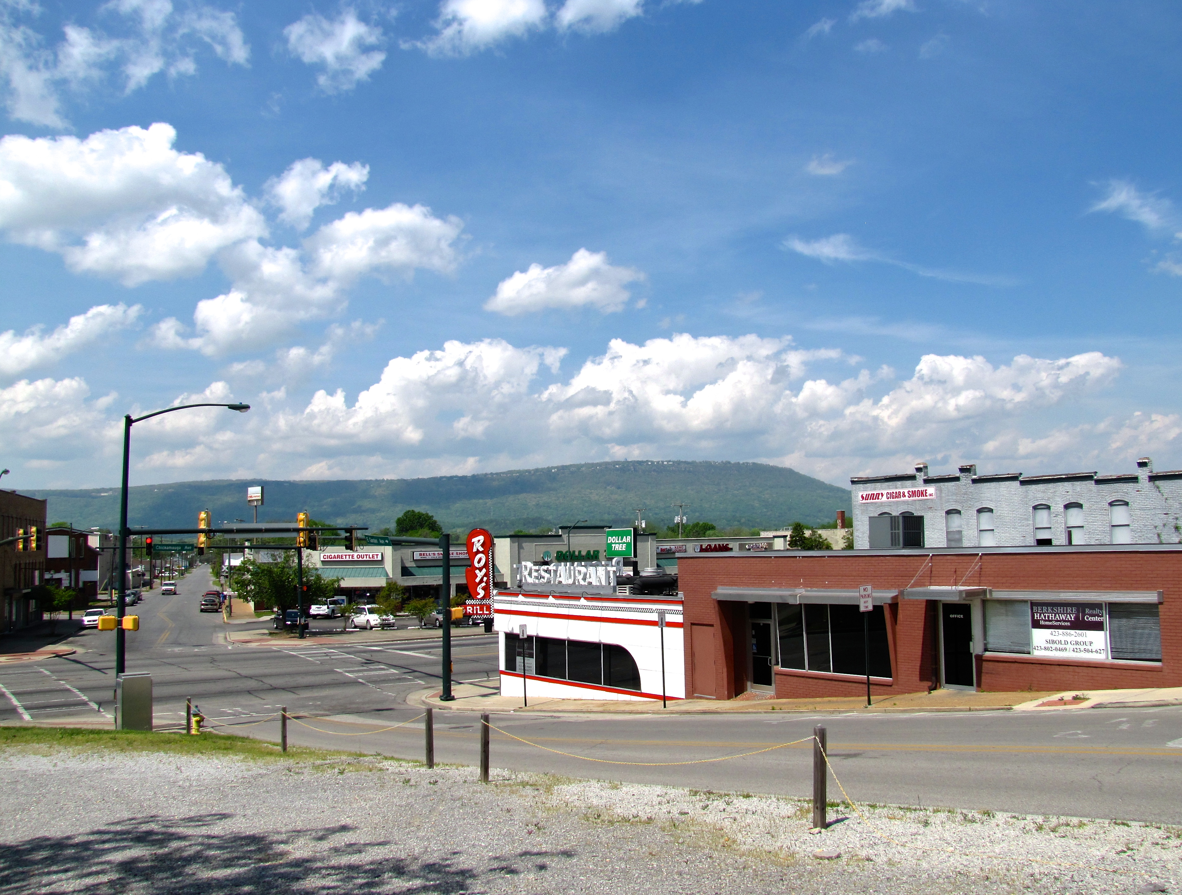 View along Gordon Avenue at its intersection with U.S. Route 27 in Rossville, Georgia, United States. Lookout Mountain spans the horizon in the distance.